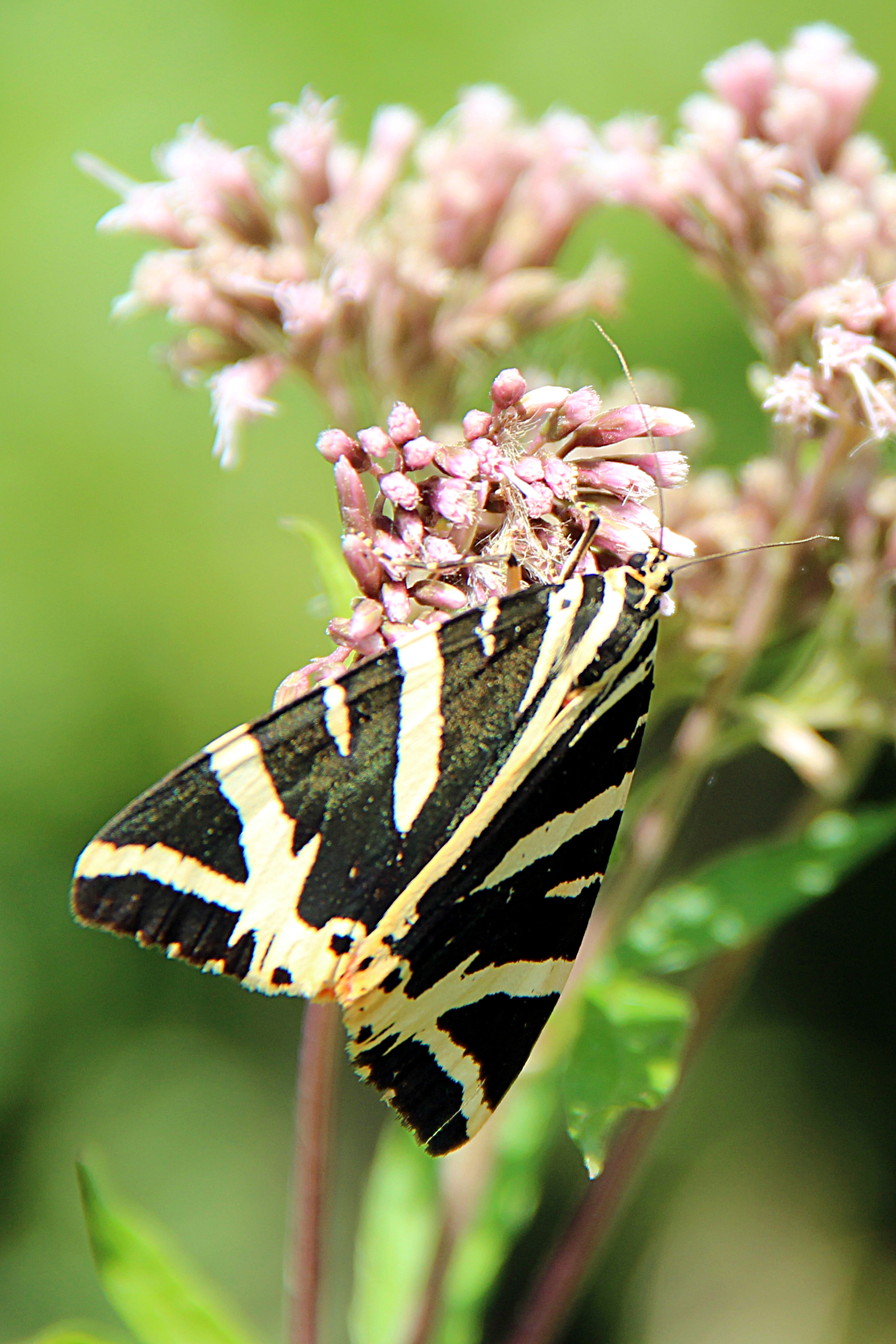 Jersey Tiger, Euplagia quadripunctaria - (Havré) (Belgium).